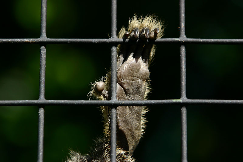 Marmoset hand in cage: Marmoset, The Butterfly House